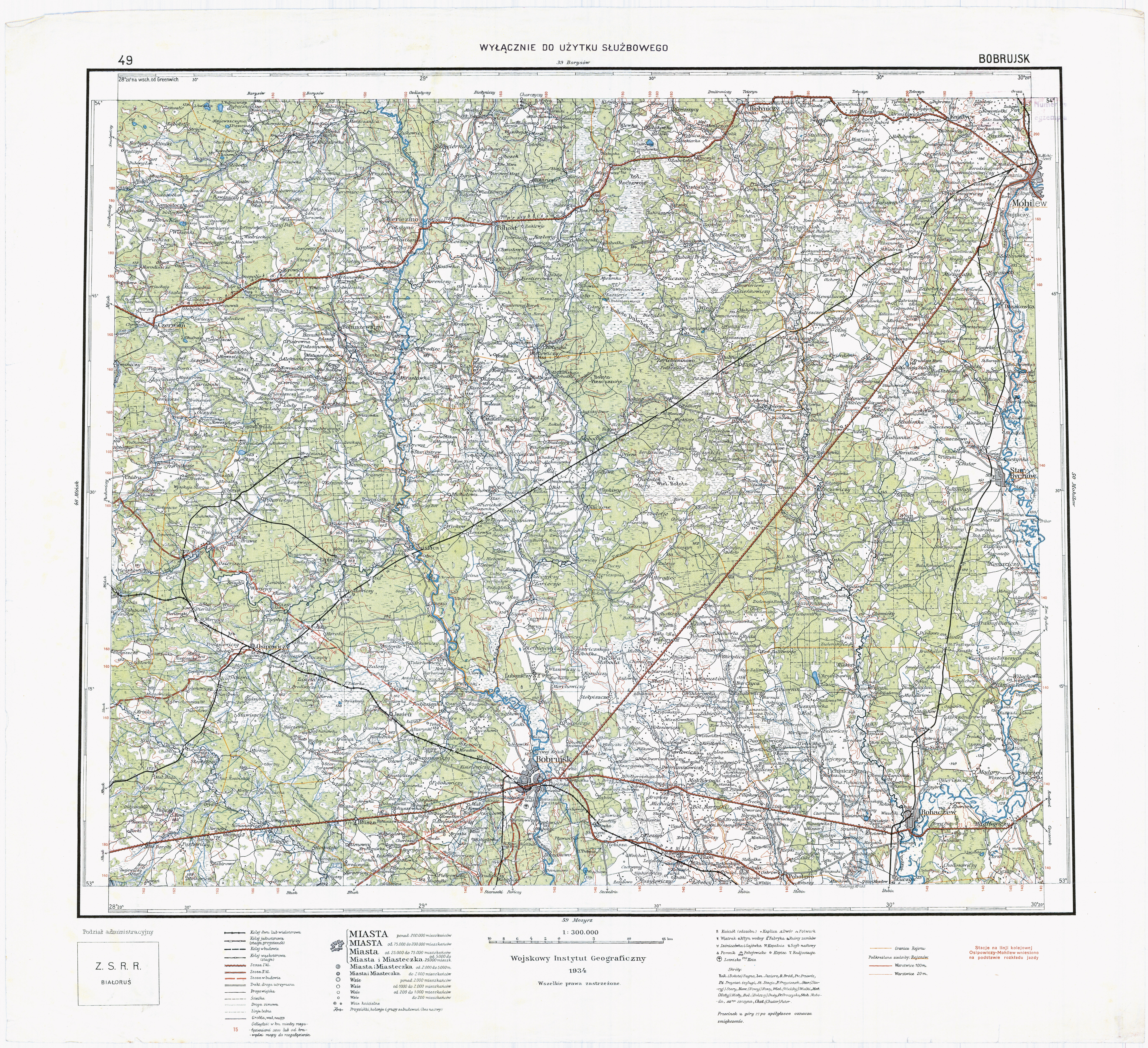 Operational map of Poland and neighbouring countries, region Bobrujsk. Scale of 1:300000.